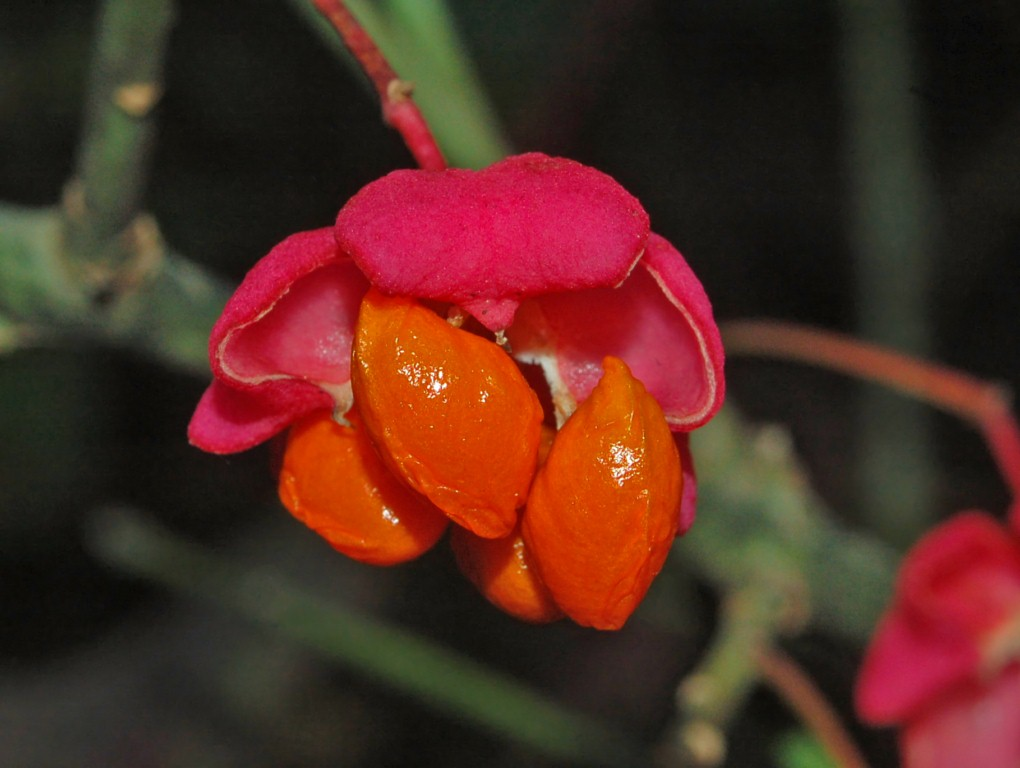 Euonymus europaeus - Val Noci, Genova, Italy